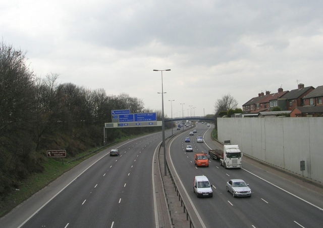 M621 - viewed from Middleton Road